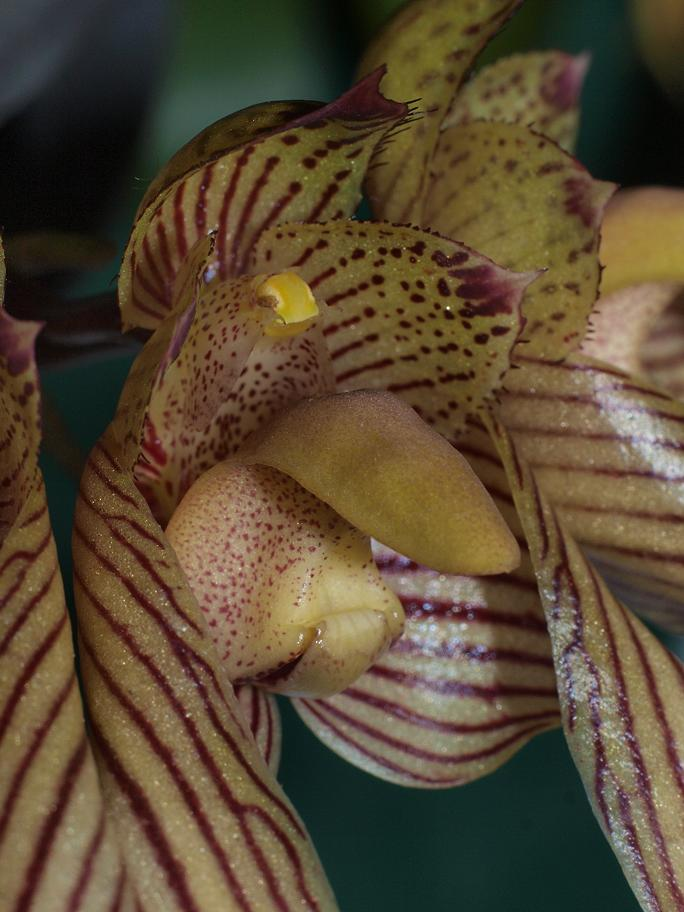 Flower detail of Bulbophyllum bicolor